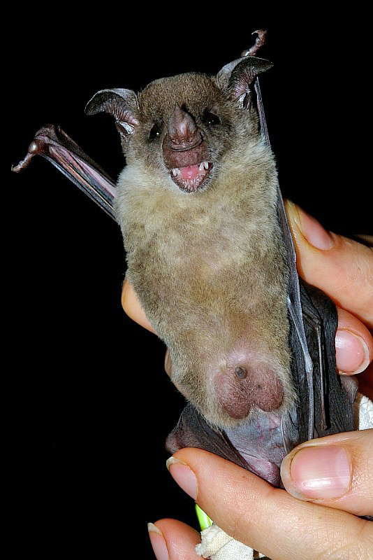 Pale spear-nosed bat, Phyllostomus discolor, picture taken in La Selva, Costa Rica